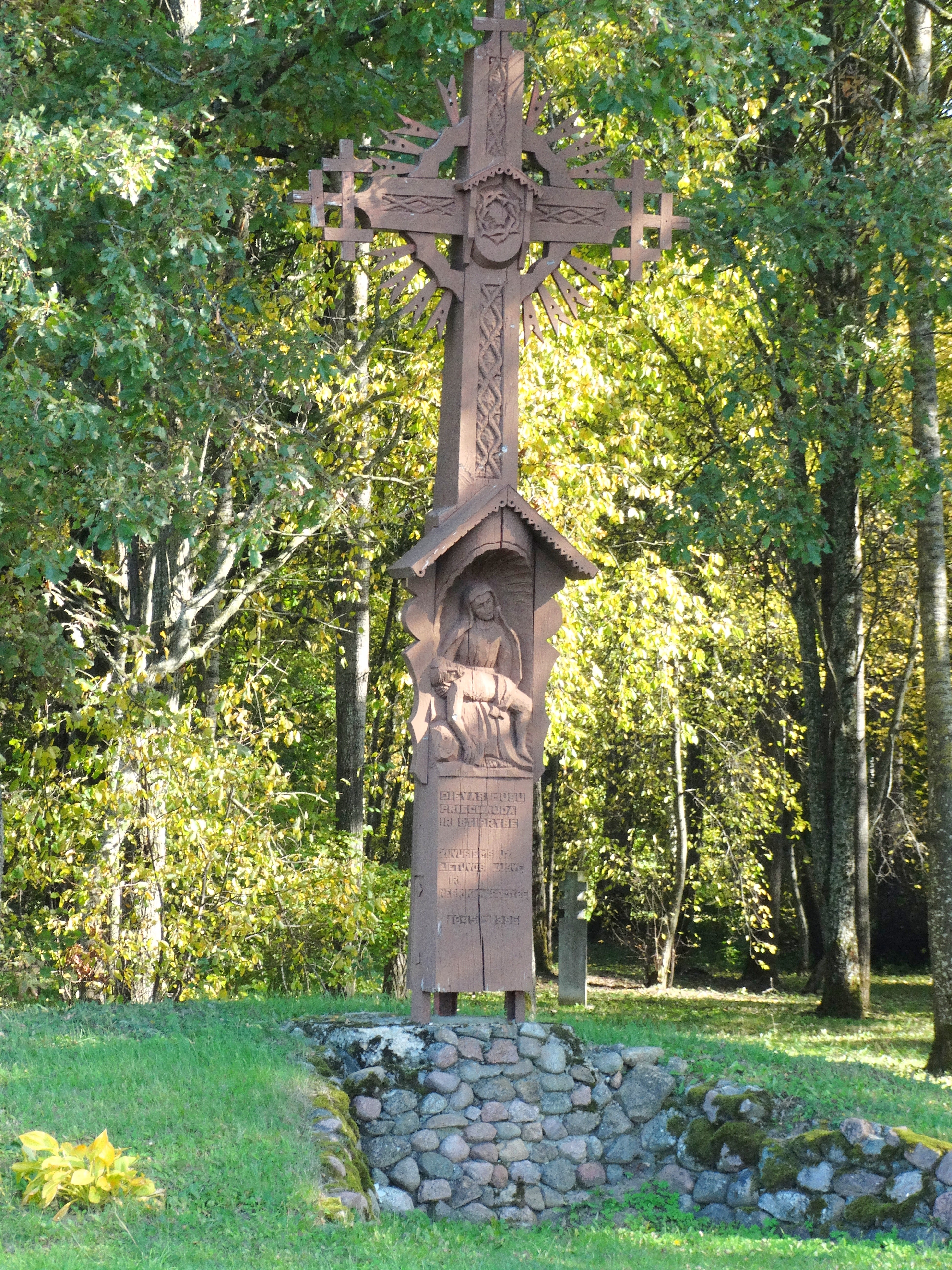 Oak forest of Vedeckas, memorial cross, Paraseinys, Raseiniai district, Lithuania